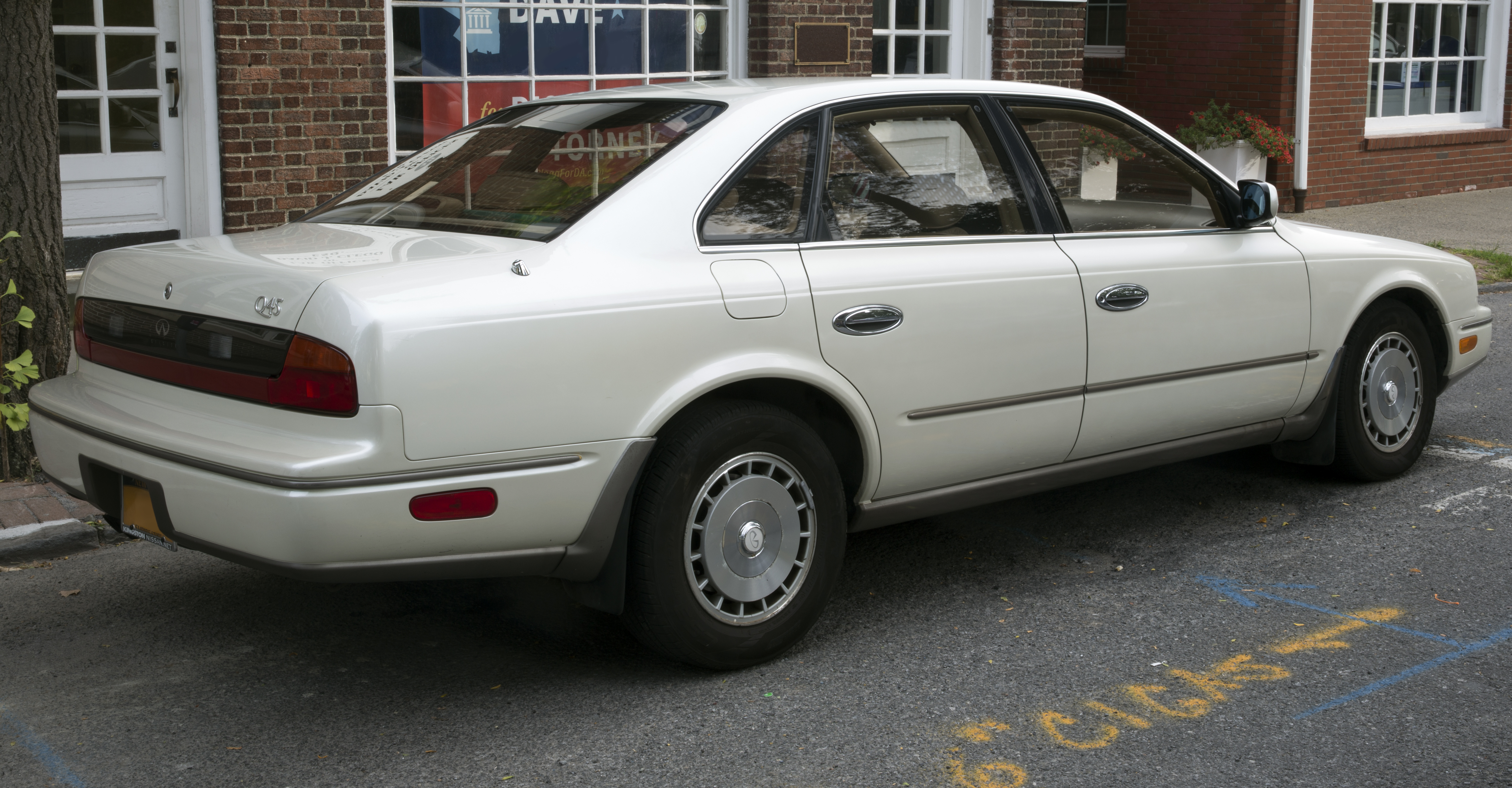 A 1993 Infiniti Q45 in Kingston, NY. This color, while horrible, is de rigueur for pre-facelift 1st generation Q45s.